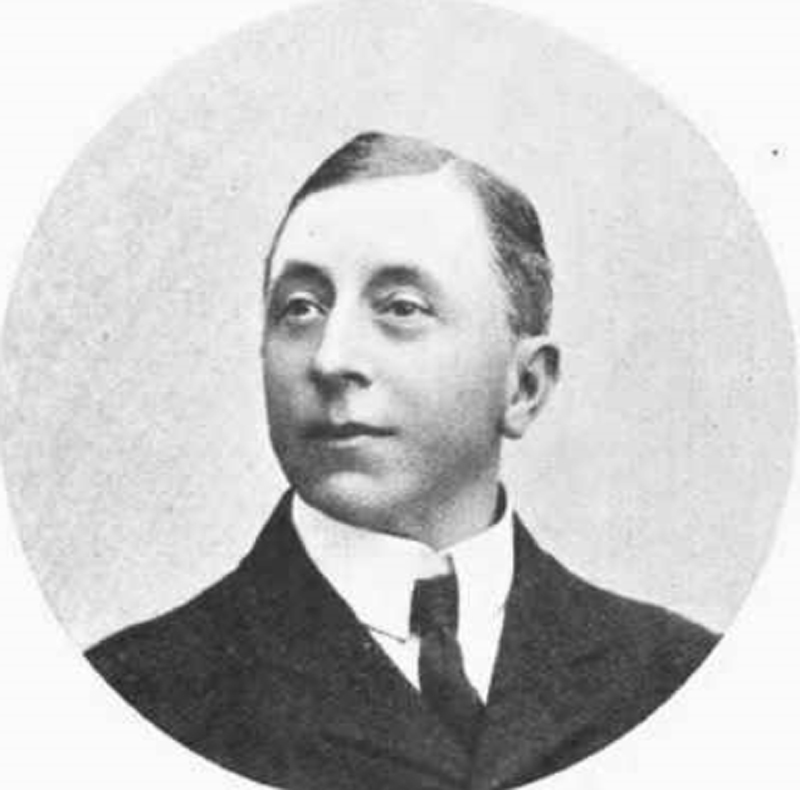 Harding Cox, owner of Chorleywood House in about 1890